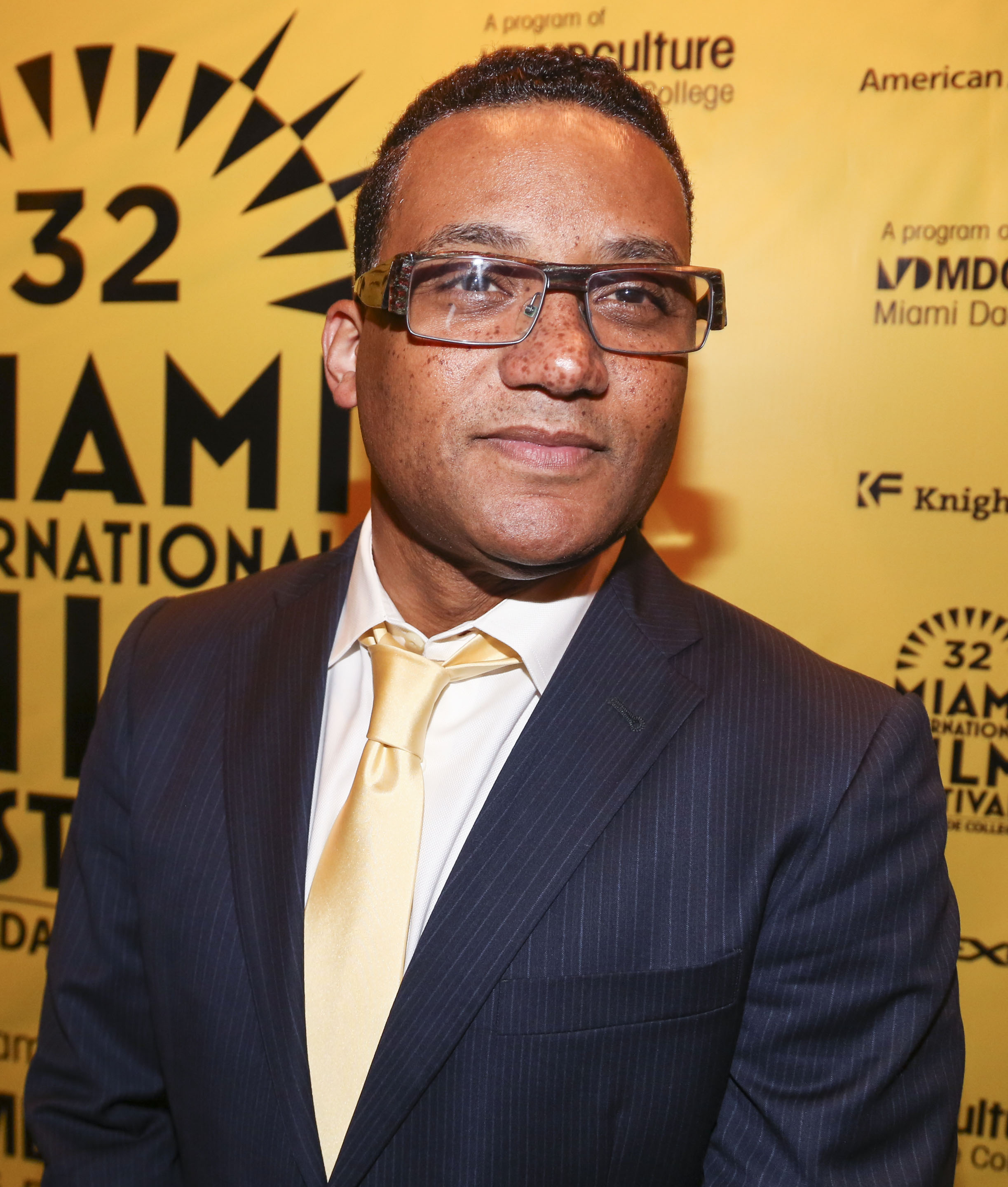 Pianist Gonzalo Rubalcaba at the Miami International Film Festival 2015, Playing Lecuona, Olympia theater, March 13, 2015